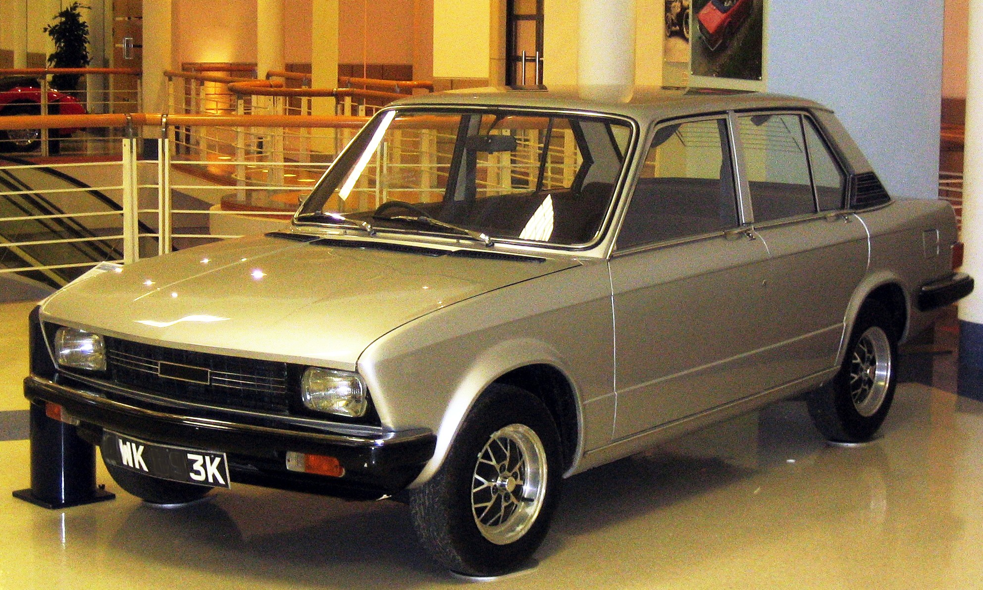 Michelotti proposal for updating the Triumph 1300. License plate 1971. The vehicle, when photographed, was on display at the Heritage Motor Centre in Warwickshire, England.